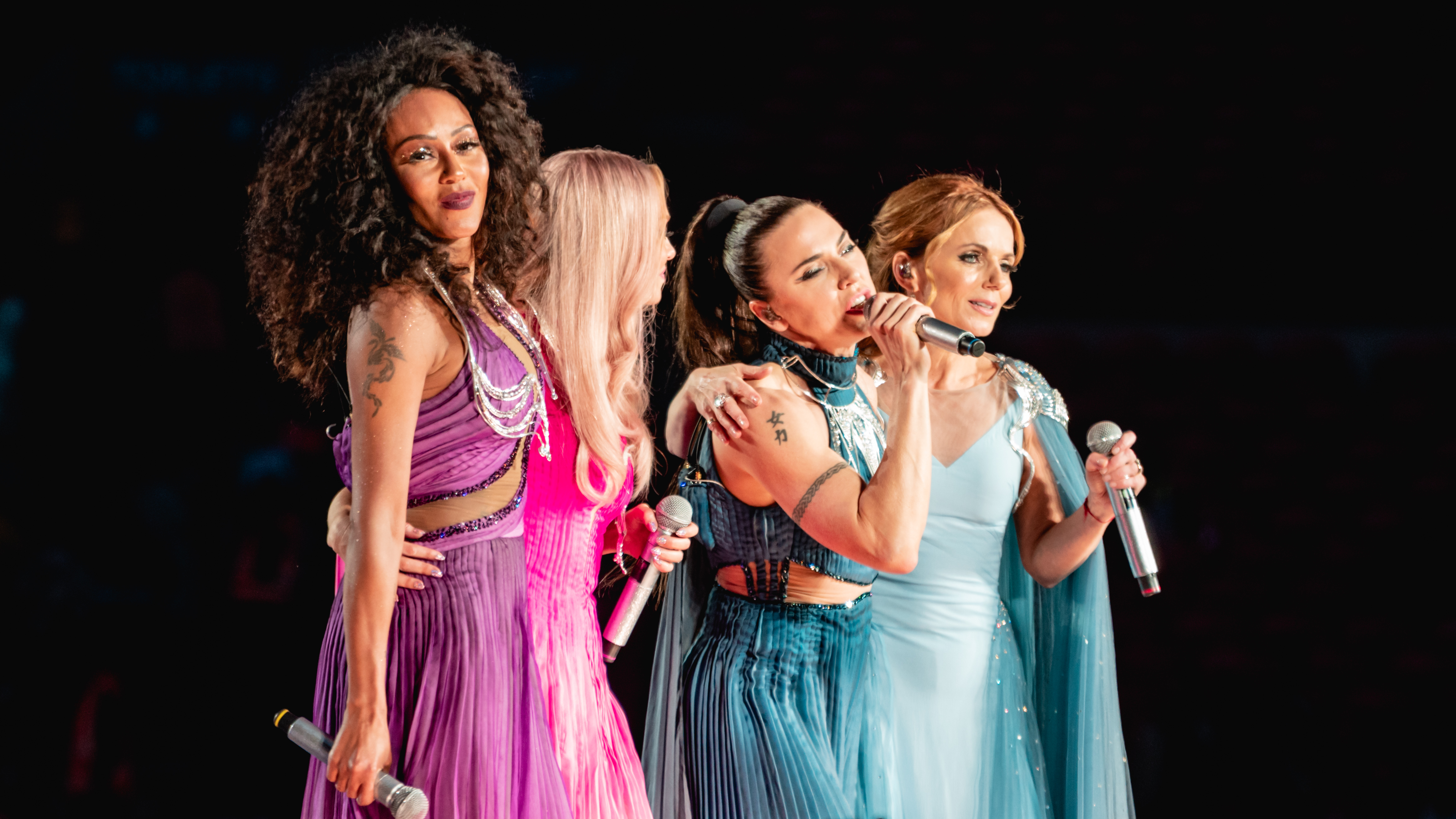 SpiceGirlWembley150619-52